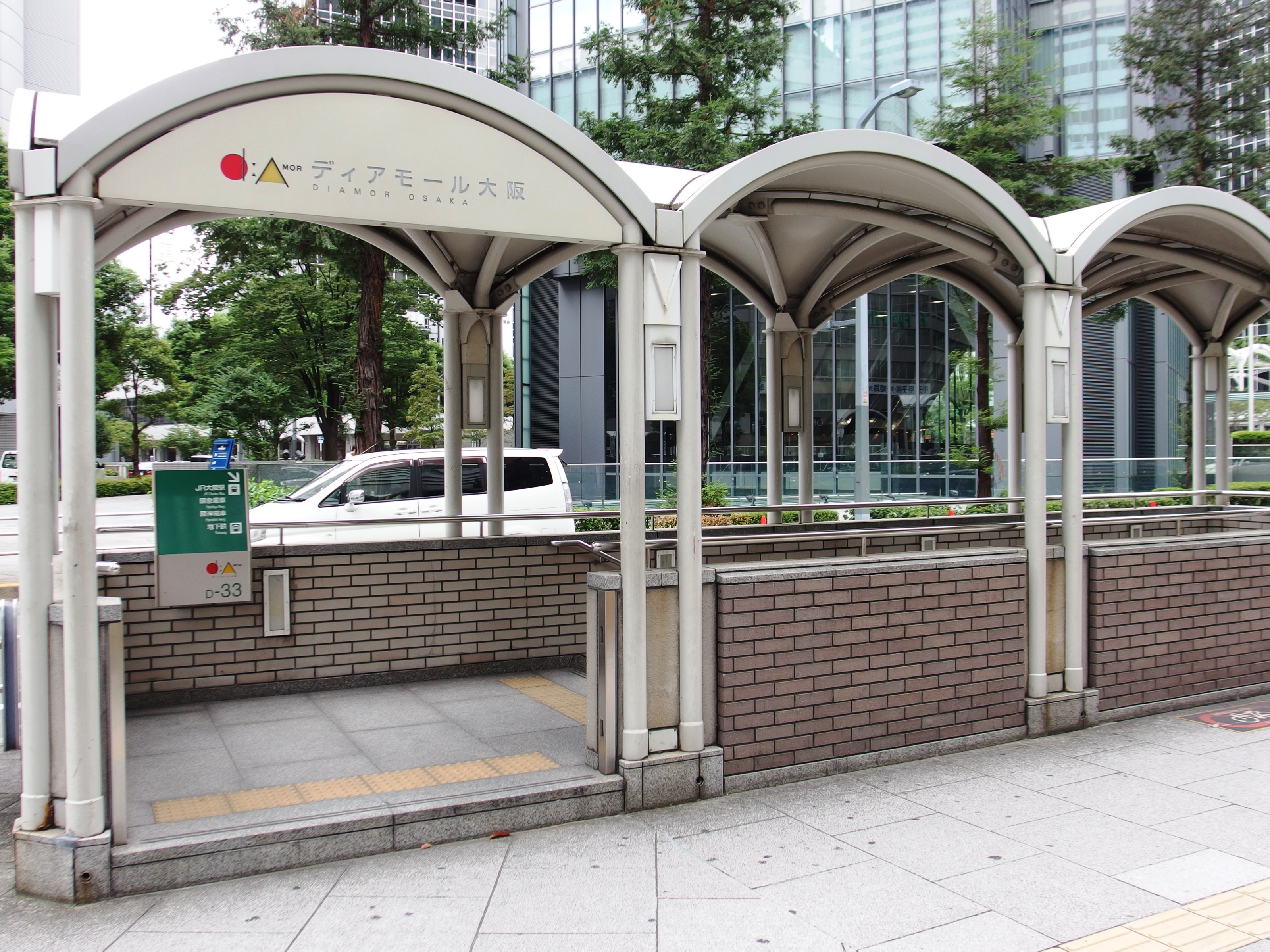 Diamor_Osaka, Osaka, Osaka Prefecture, Japan